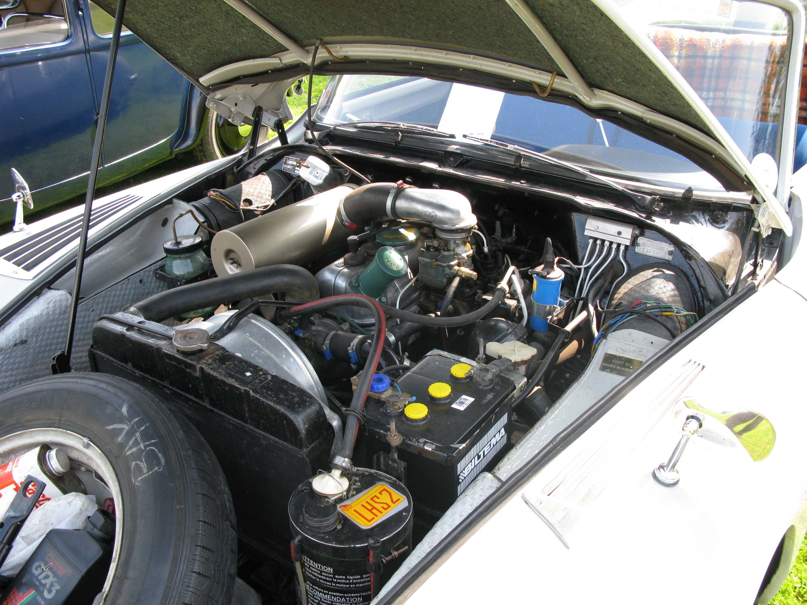 1960 Citroën DS engine bay.Event: Tjolöholm Classic Motor 2012.